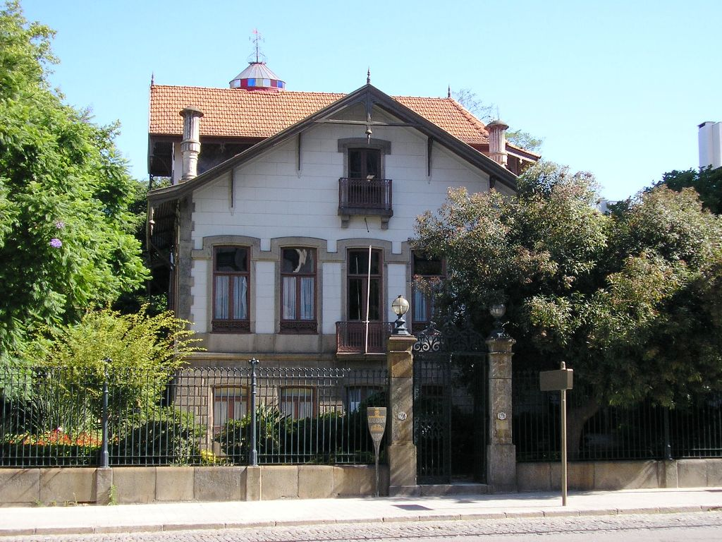 House of the Viscountess of Santiago de Lobão in Porto, Portugal